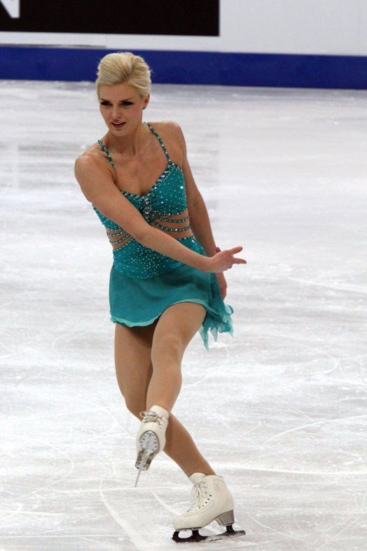 Viktoria Helgesson at the 2011 European Figure Skating Championships